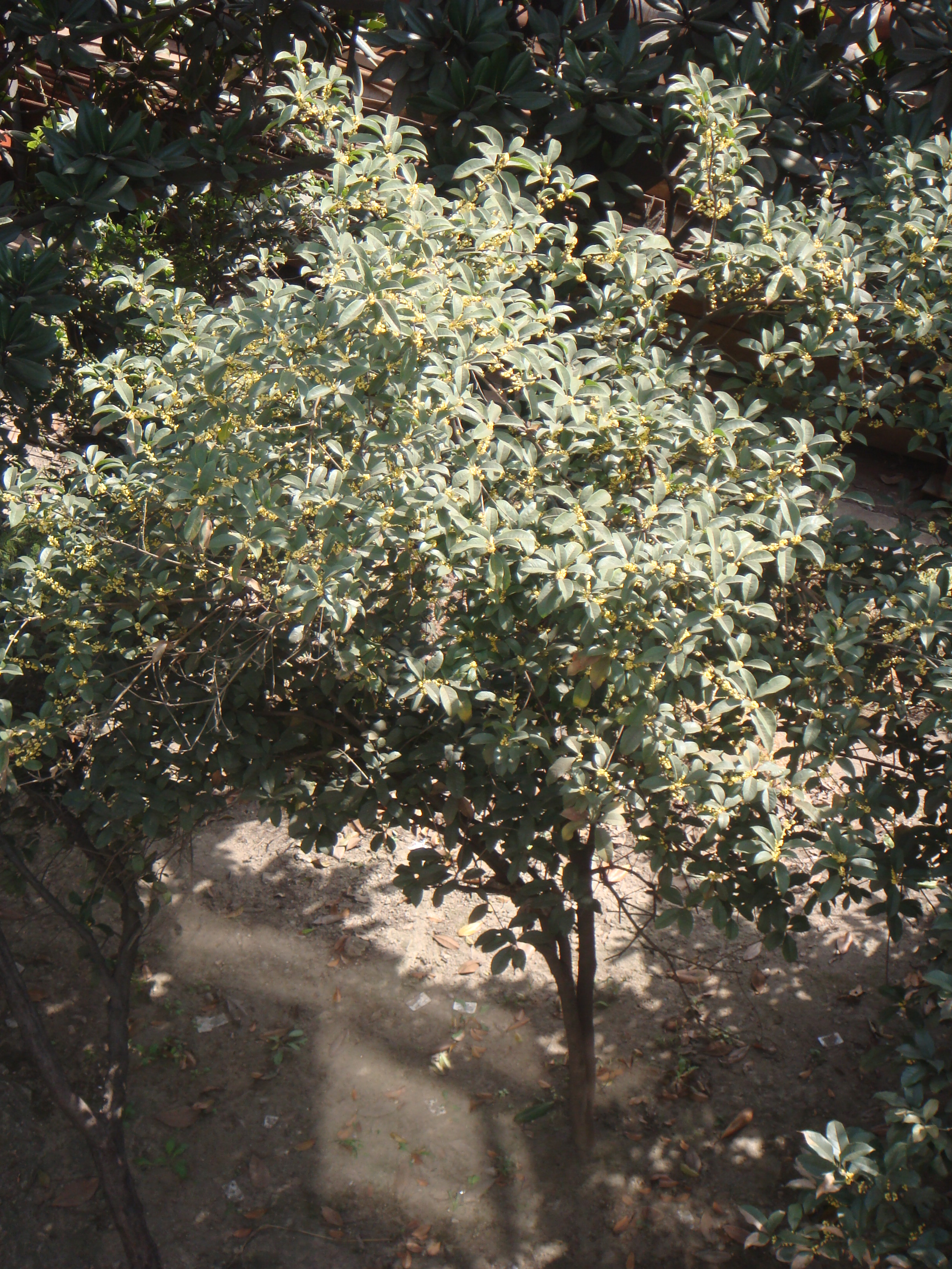 A picture of Osmanthus fragrans in full bloom (Chinese name, Guihua), taken in Jingjiang, Jiangsu, China.